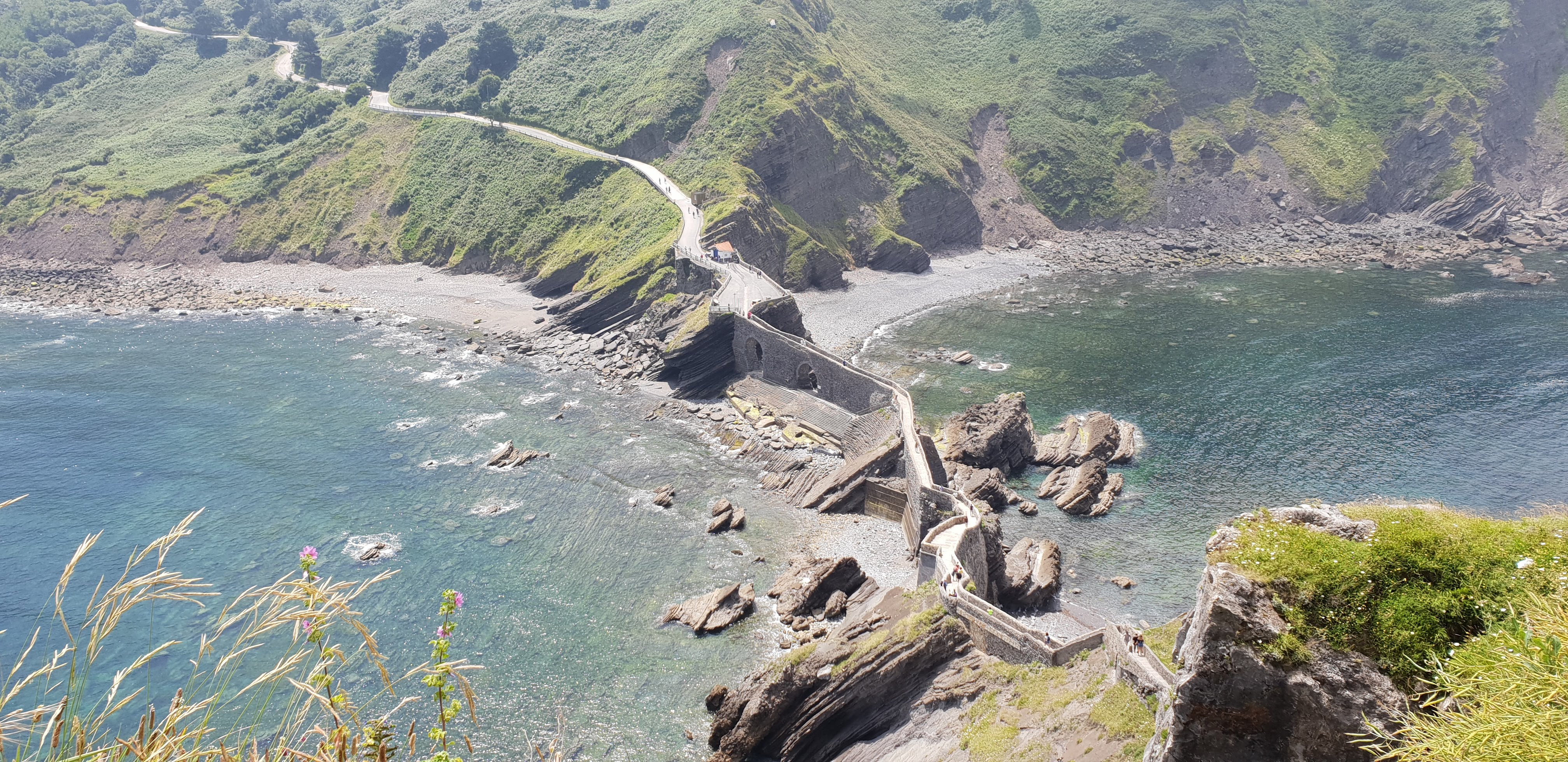 Gaztelugatxe, June 26th 2018